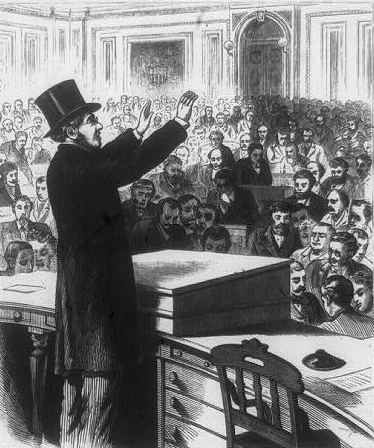 Canadian rabbi Abraham de Sola (1825–1882) delivering opening prayer at U.S. House of Representatives on January 9, 1873. Wood engraving from a newspeper cutting (possibly "Frank Leslie's Illustrated Newspaper").